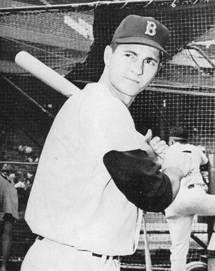 Professional baseball player Carl Yastrzemski